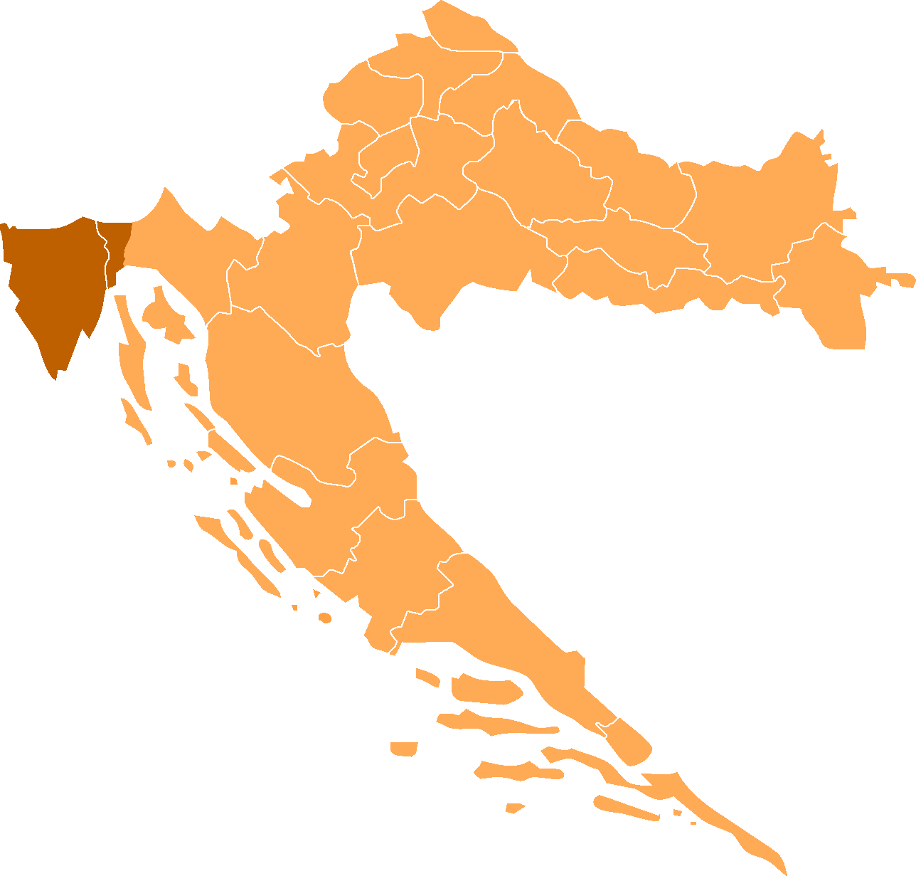 Croatia with Slavonia highlighted. Made from Morwen's maps. Corrected map made by user KirkEN. ==